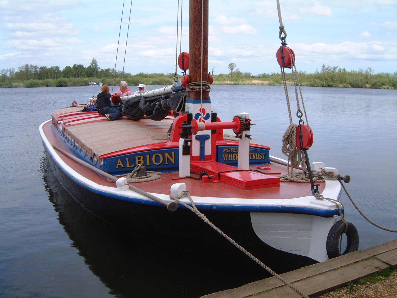 The Wherry Albion, owned by the Norfolk Wherry Trust, pictured lying at Ranworth Broad in 2002